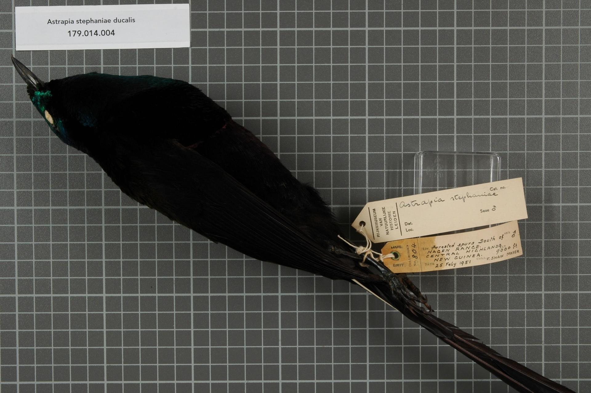 Astrapia stephaniae ducalis Mayr, 1931